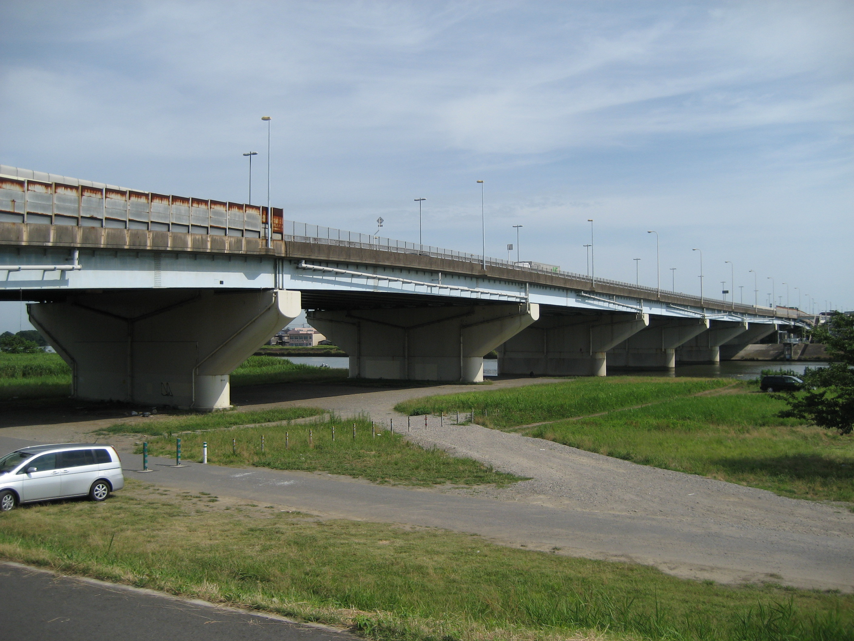 The Kyowa Bridge over the Naka River, on the Saitama Prefectural Road Route 116 and Tokyo Metropolitan Expressway Route 6, seen from Yashio side